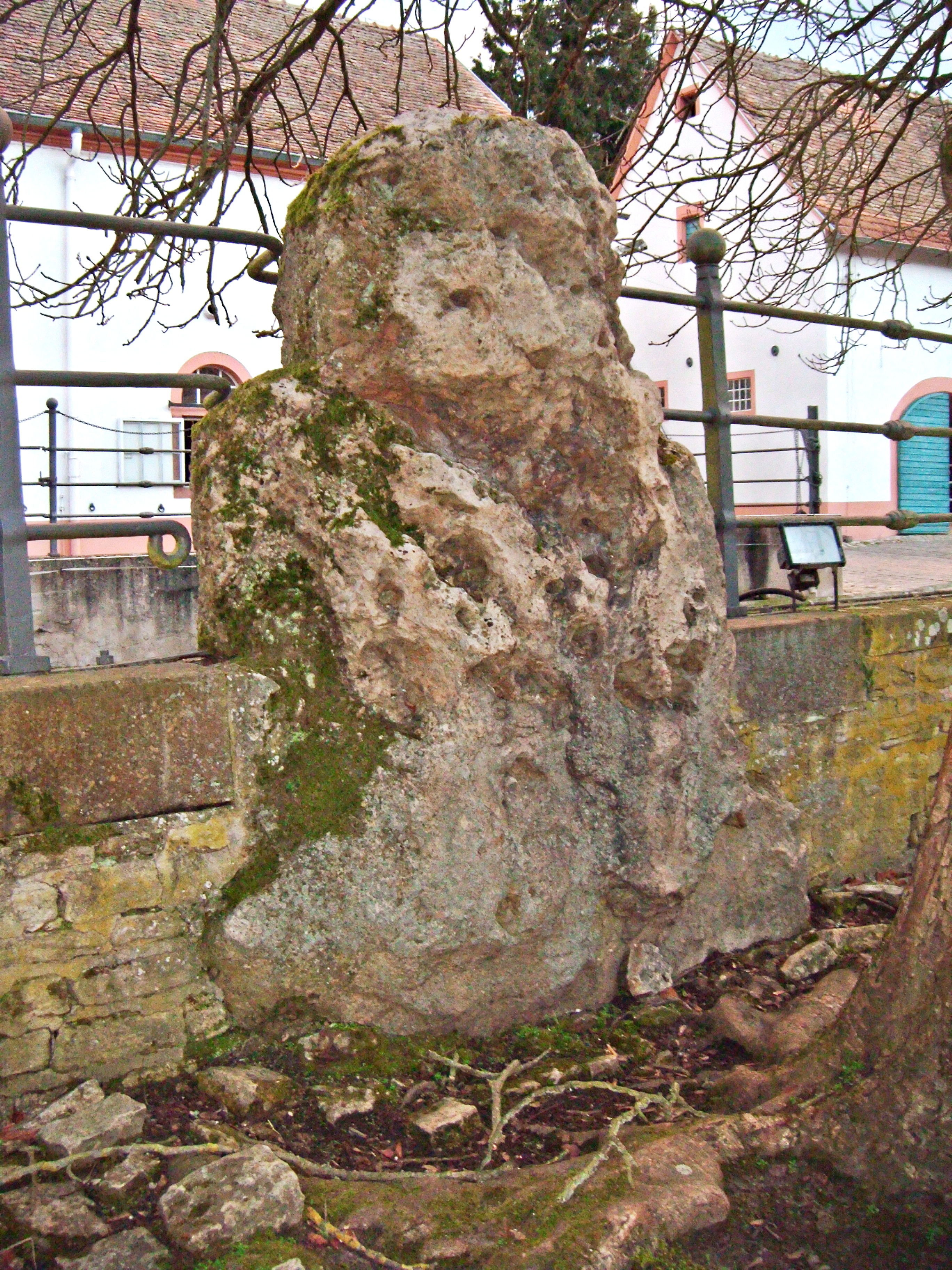 Schloss Monsheim, Schlosshof, Monsheimer Menhir